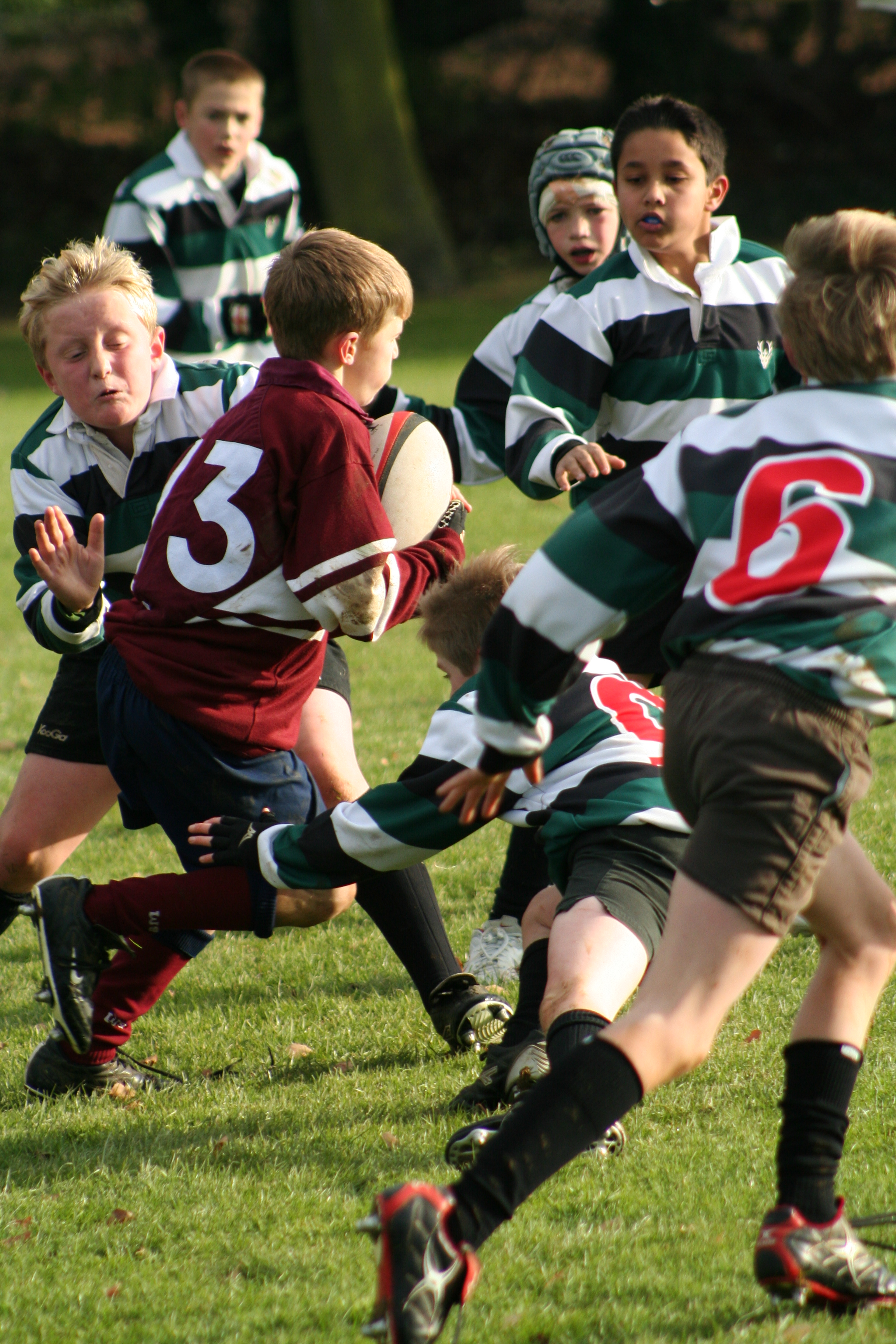 Guy Marshman (11) representing Wellingborough Prep' School running through the players from Spratton Prep' School in a Rugby Union match 11/2005; picture by R Neil Marshman (c) - see metadata.